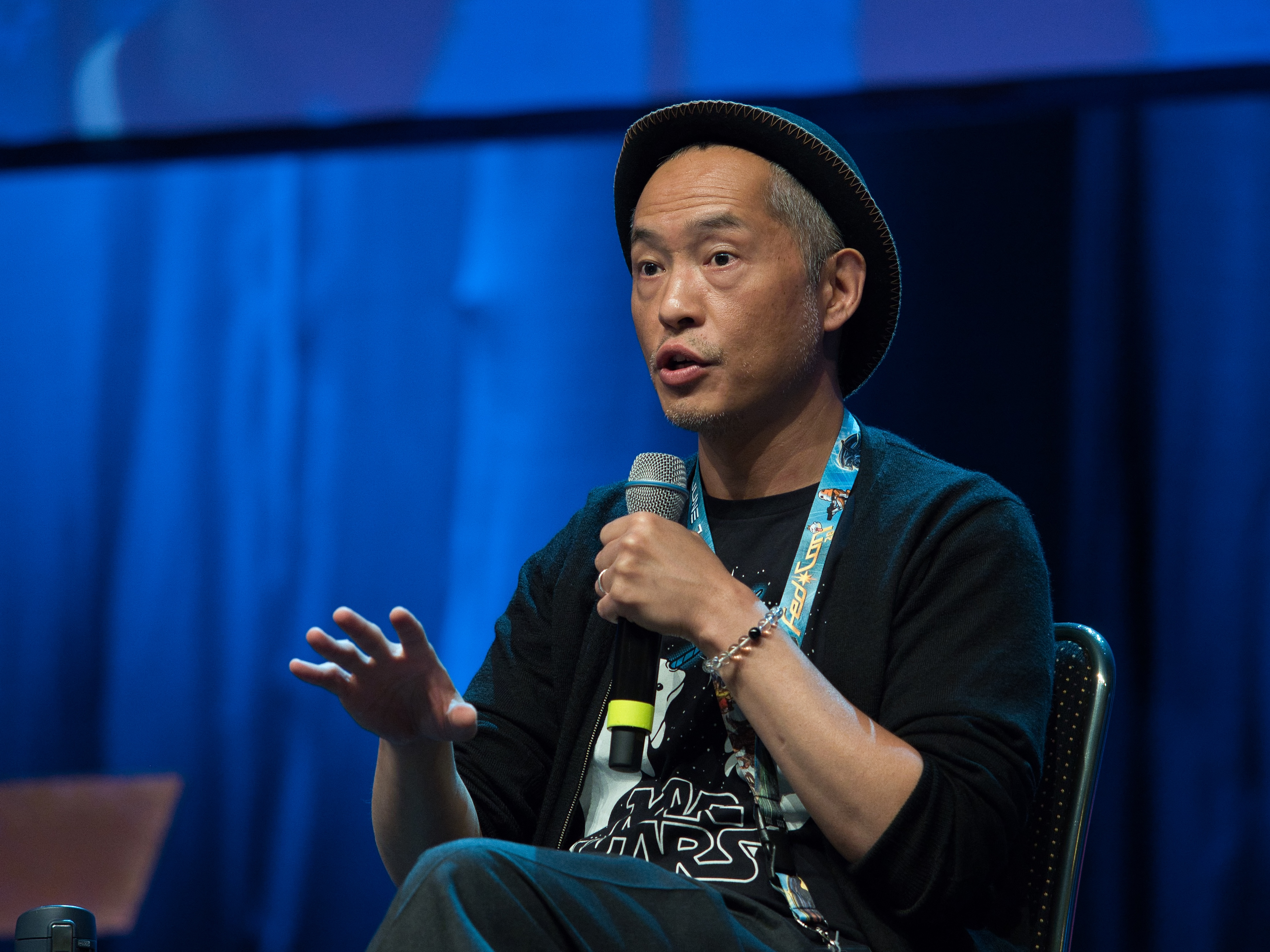 Ken Leung at the 2019 FedCon